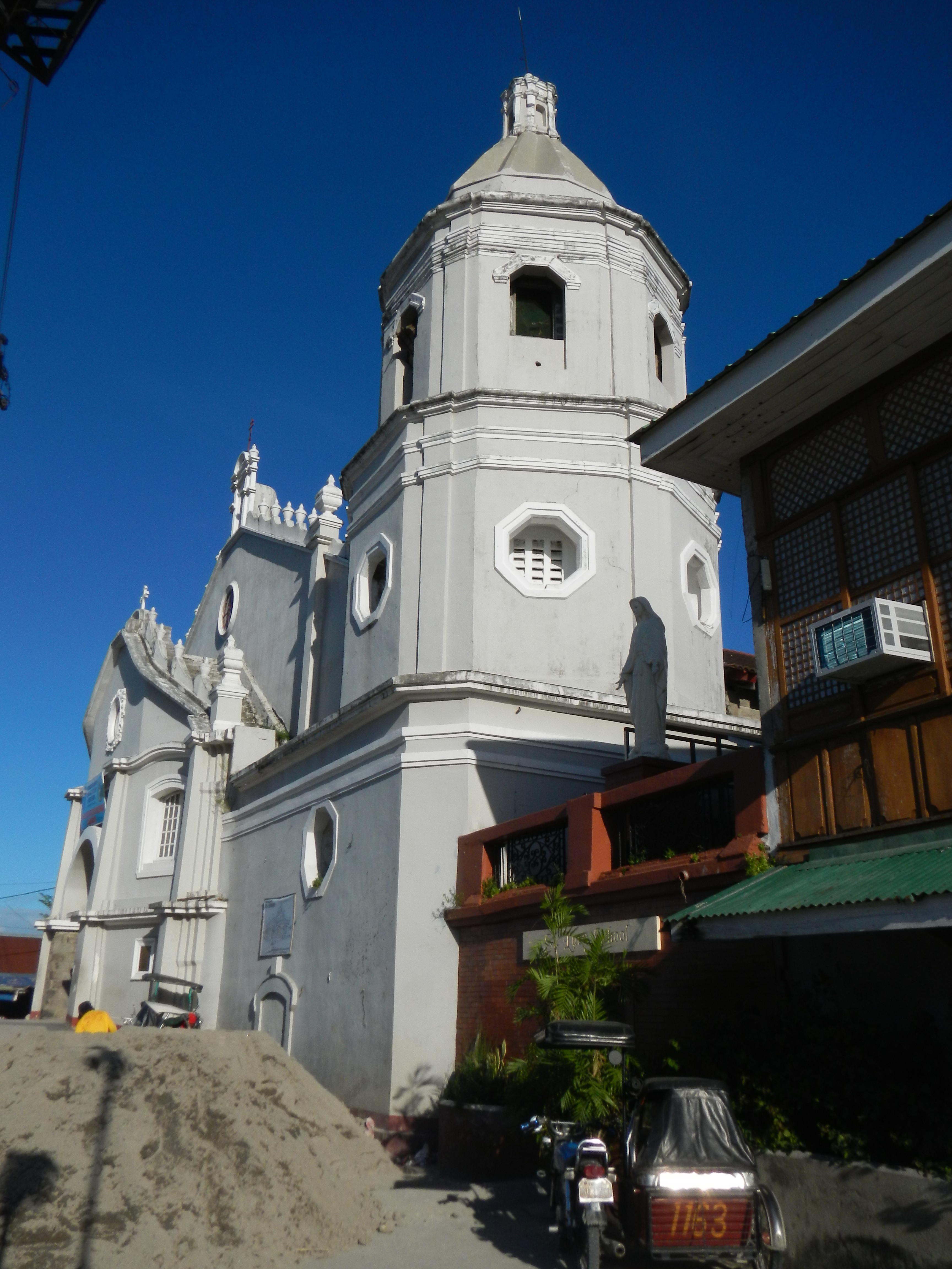 Sasmuan, Pampanga [1] Heritage Santa Lucia Parish Church